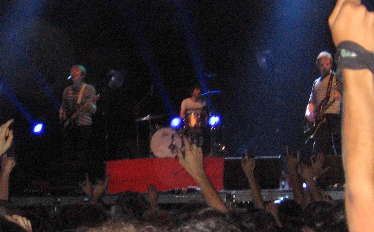 Franz Ferdinand at Traffic Torino Free Festival 2007